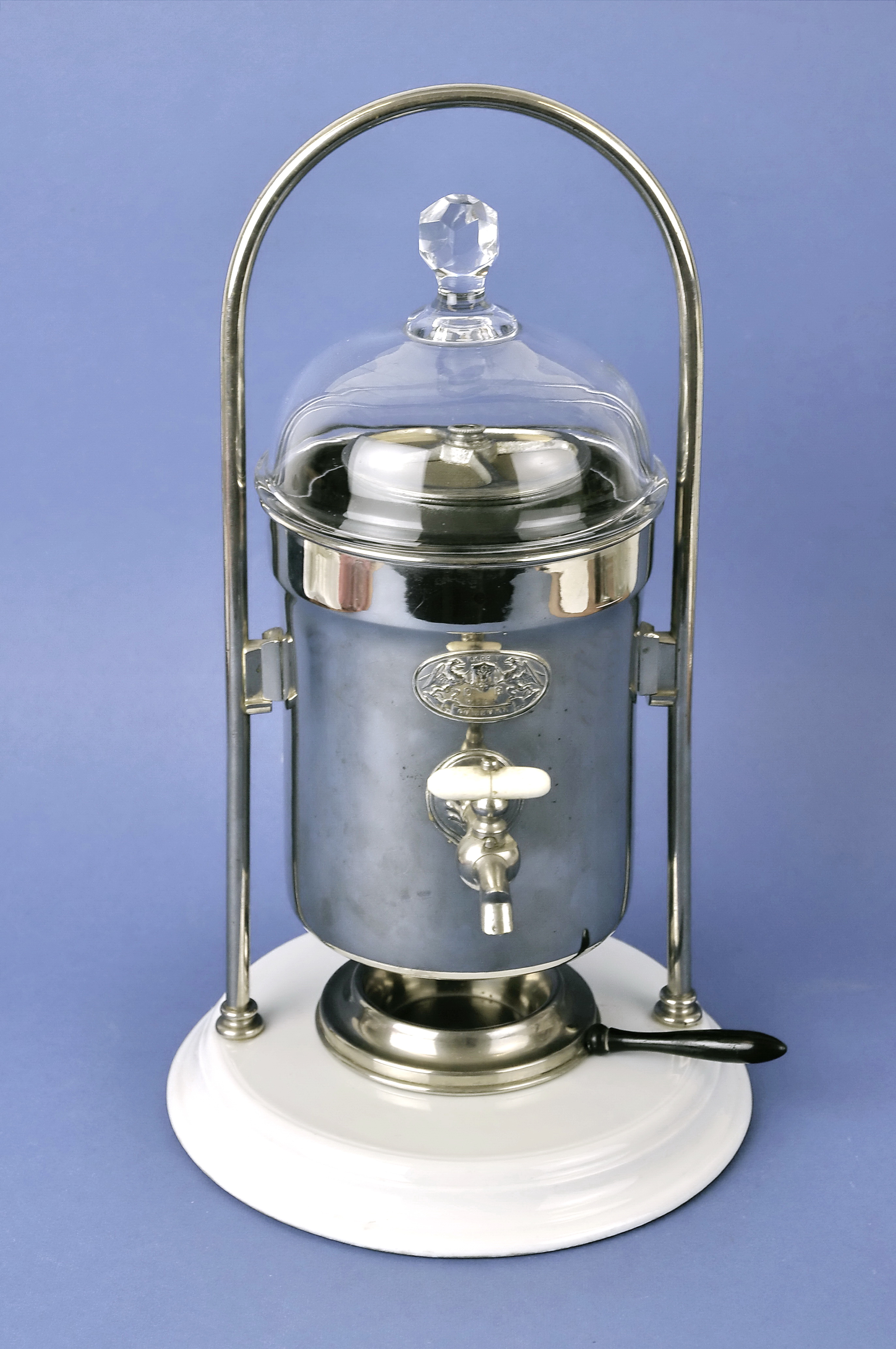 Coffee maker (espresso) from Vienna, 20th century. Now it is located in Museum of Science and Technology in Belgrade.